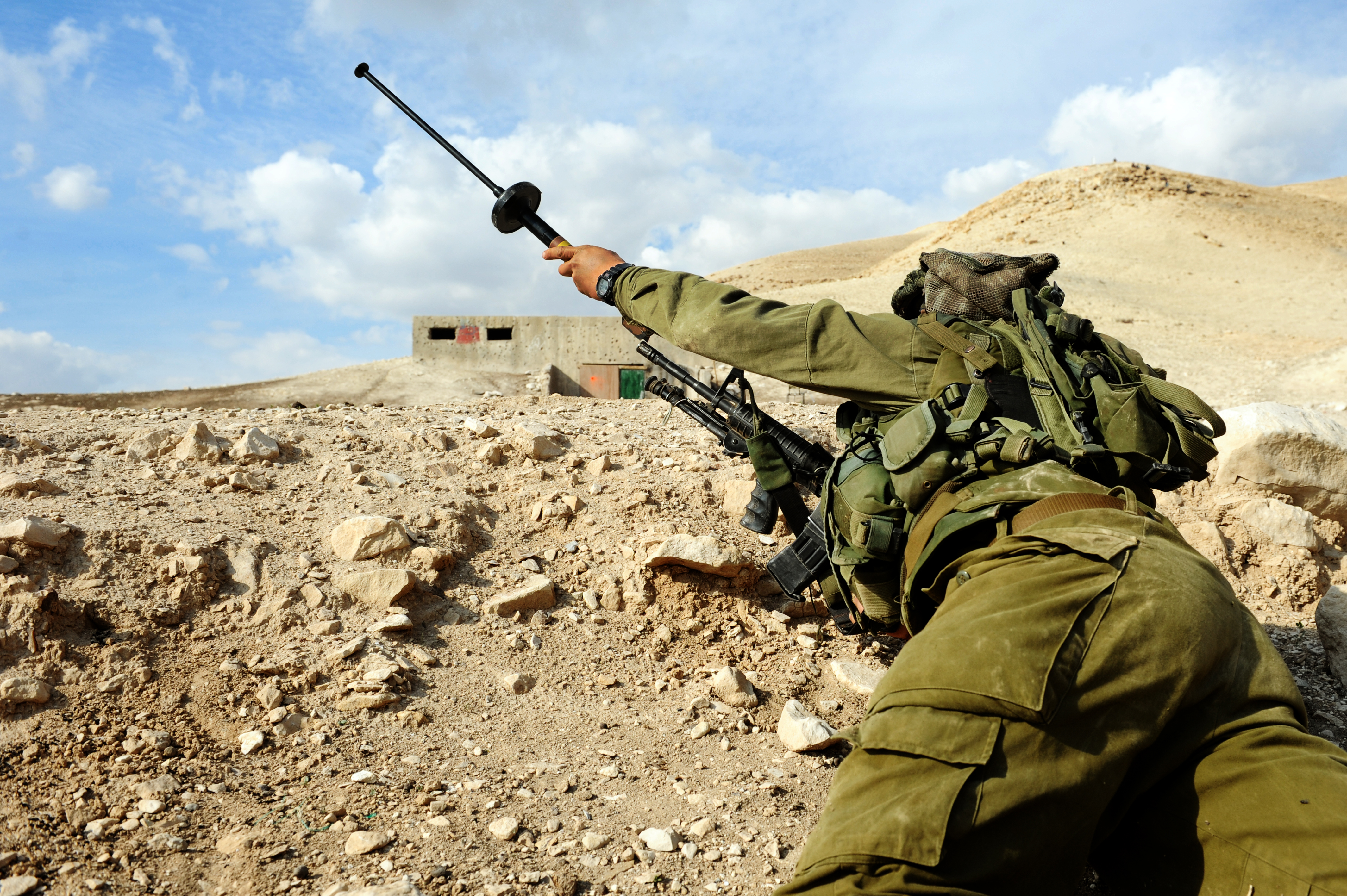 December 16, 2012 They don't just parachute: the Paratroopers Brigade's Reconnaissance Battalion practice urban warfare in a live-fire drill, meant to stimulate the reality of fighting in densely populated areas. During the exercise, the combat engineering company practiced taking over a building, all the while taking care to minimize uninvolved casualties. Photographer: Sgt. Shay Wagner, IDF Spokesperson's Unit For more from the IDF